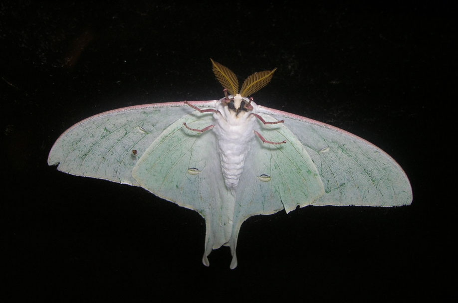 Actias artemis. Photo by Carlos Ross, taken with a Nikon E4600 at Hiroshima, Japan, 12 June 2005.